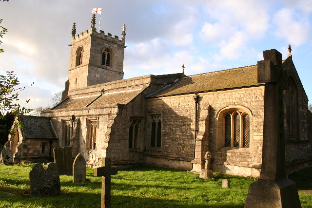 Parish church of St John the Baptist, Clarborough, Nottinghamshire, seen from the southeast